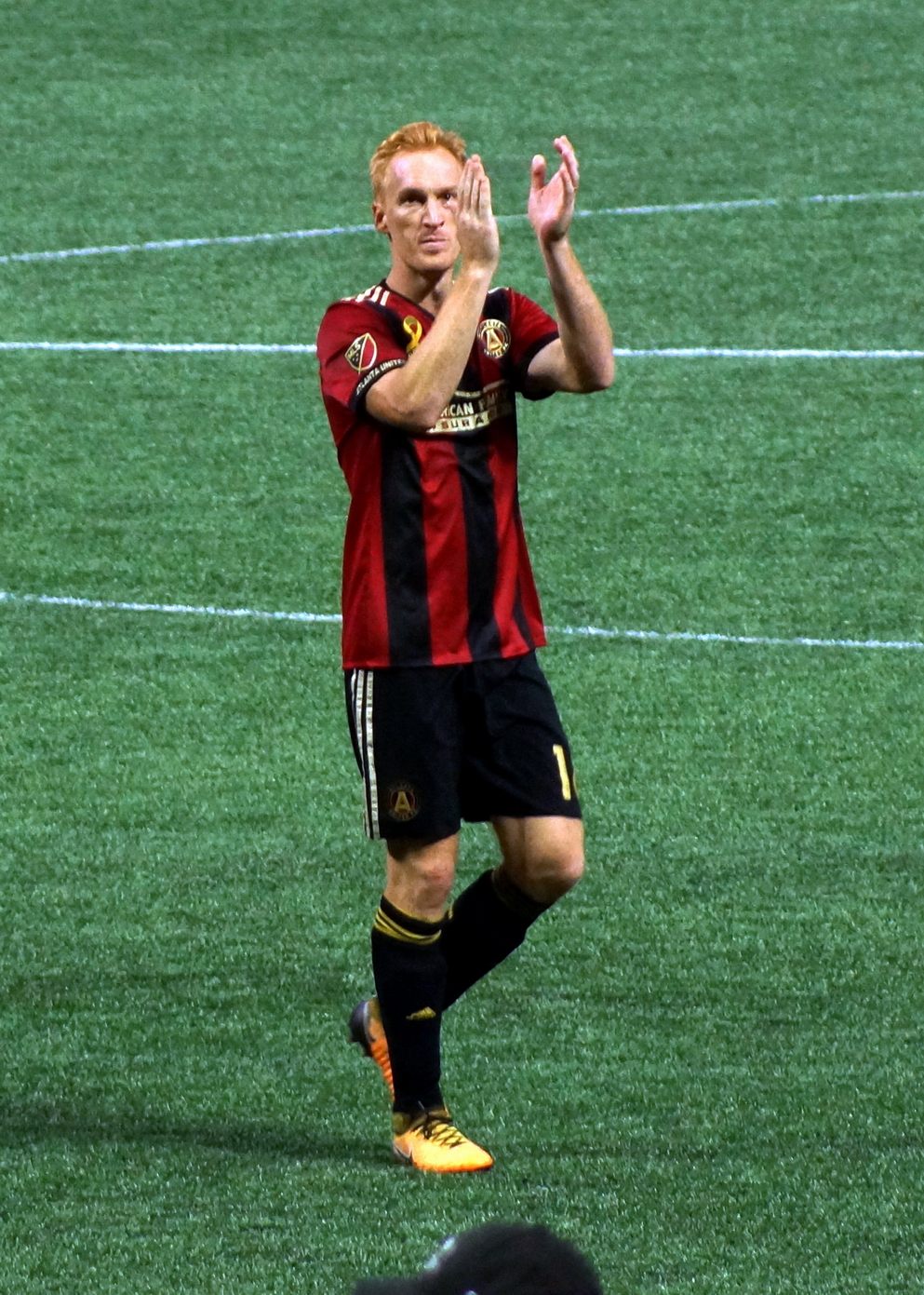 Jeff Larentowicz after the Atlanta United game on September 24, 2017